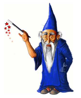 Kandalf, mascot of KDE version before 3.x.